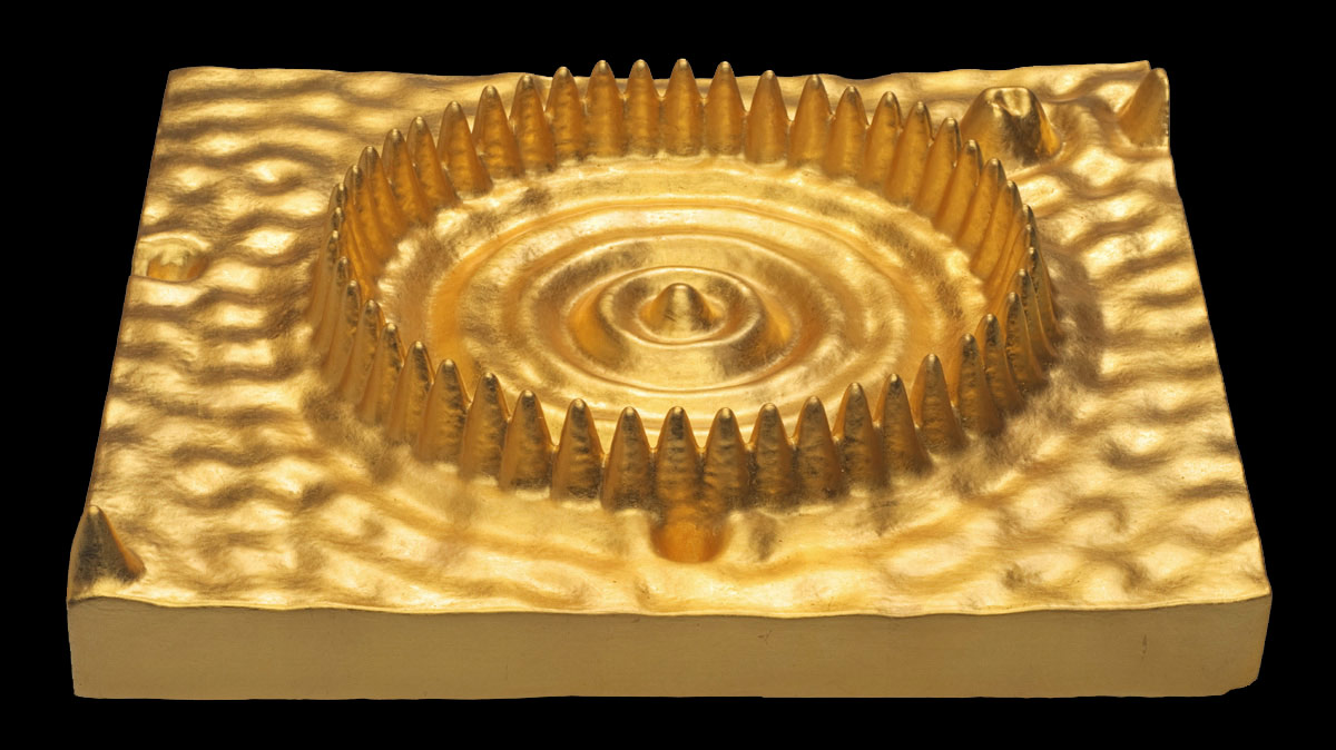 The Well (Quantum Corral), 2009 Gilded wood; 13” x 12” x 3” (34 cm x 31 cm x 6 cm). Reprodution of an illustration published in 1993 as a sculpture in gilded wood. The original image is fig. 2 in IBM Research Division (Almaden Research Center) published alternative representations of the same dataset in 1993/4, e.g.